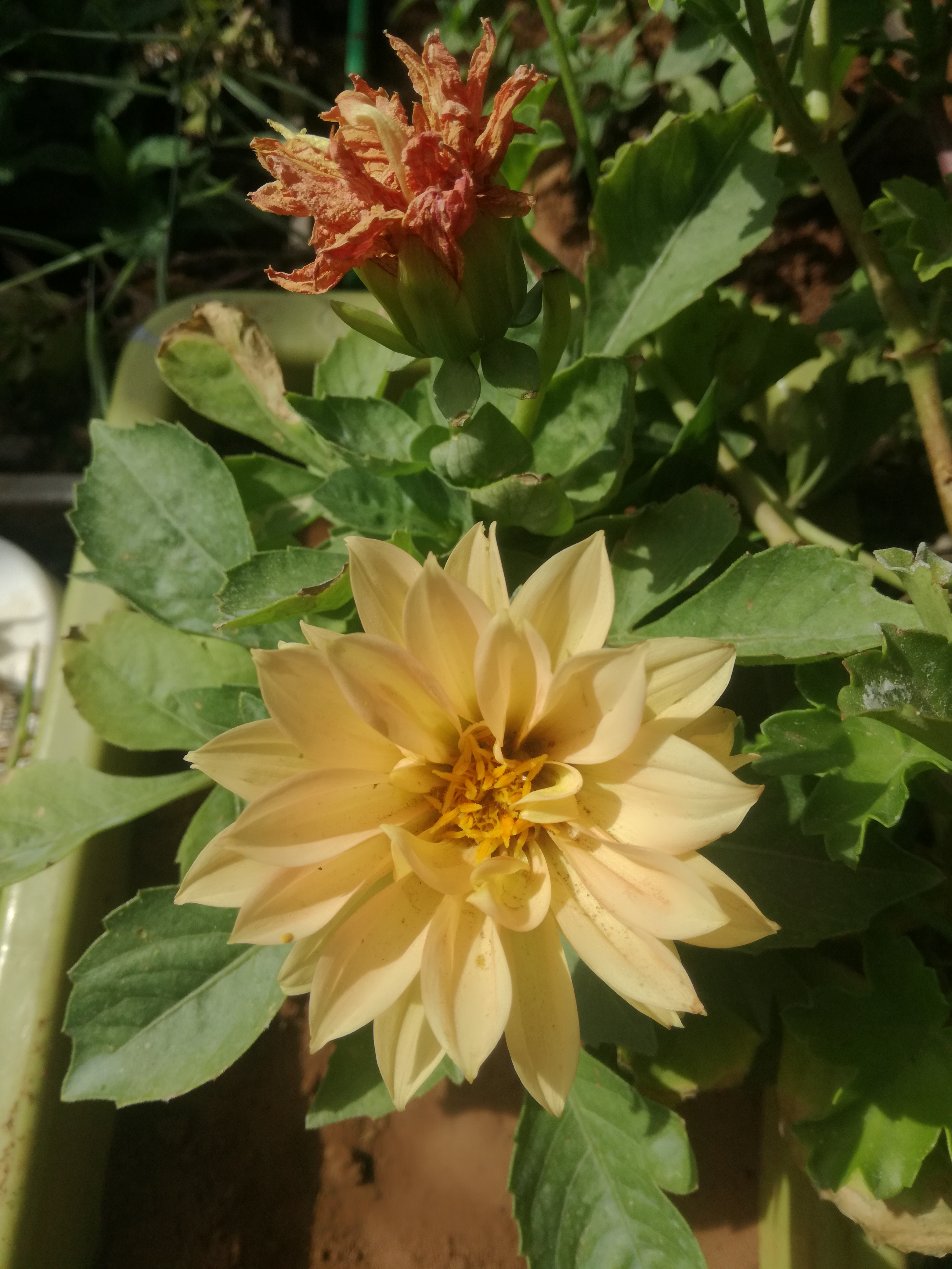 Yellow flower